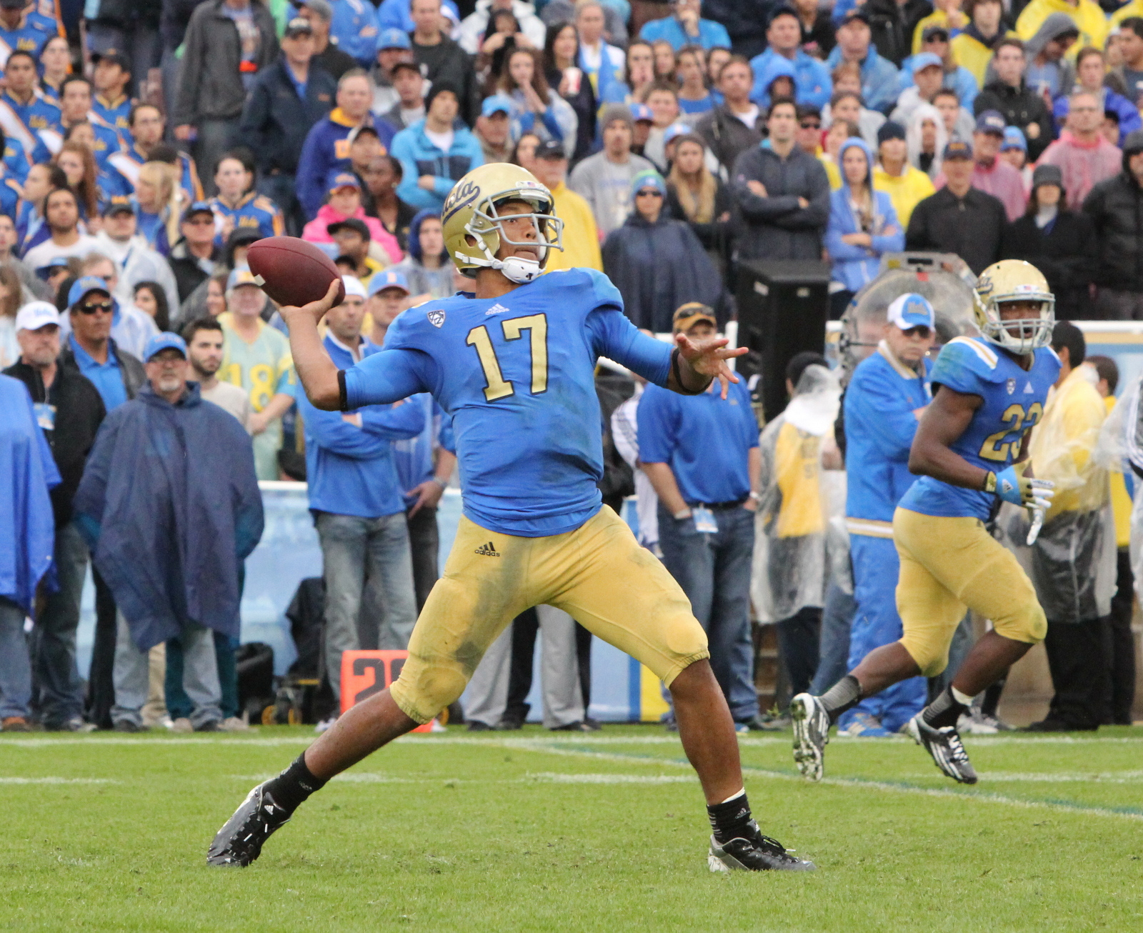 UCLA Bruins quarterback Brett Hundley